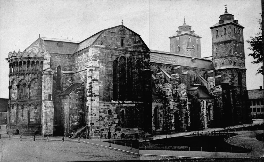 Lund Cathedral as it looked before the restauration by Helgo Zettervall in 1860-1880. View from northeast. The Romanesque cathedral, one of the oldest churches in Scandinavia, was inaugurated in 1145.